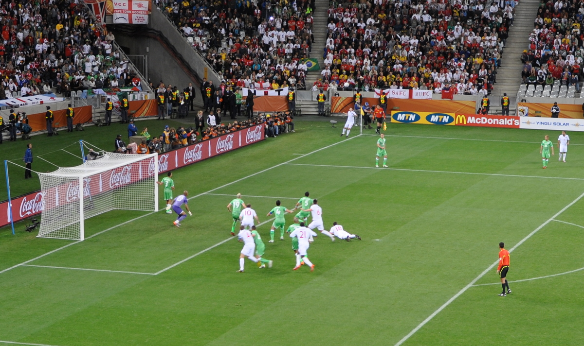 Corner during the game between England and Algeria at FIFA World Cup 2010, 18 June 2010, Green Point Stadium, Cape Town